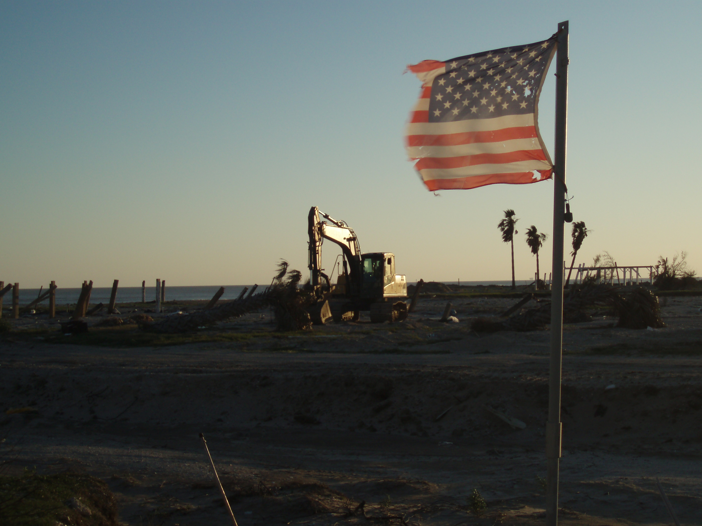 In this image, taken on the Bolivar peninsula, one can see the Gulf of Mexico, the wind-blown wooden pillars where houses once stood, the reconstruction efforts on the peninsula, and the tattered flag that was set-up as part of a makeshift memorial.